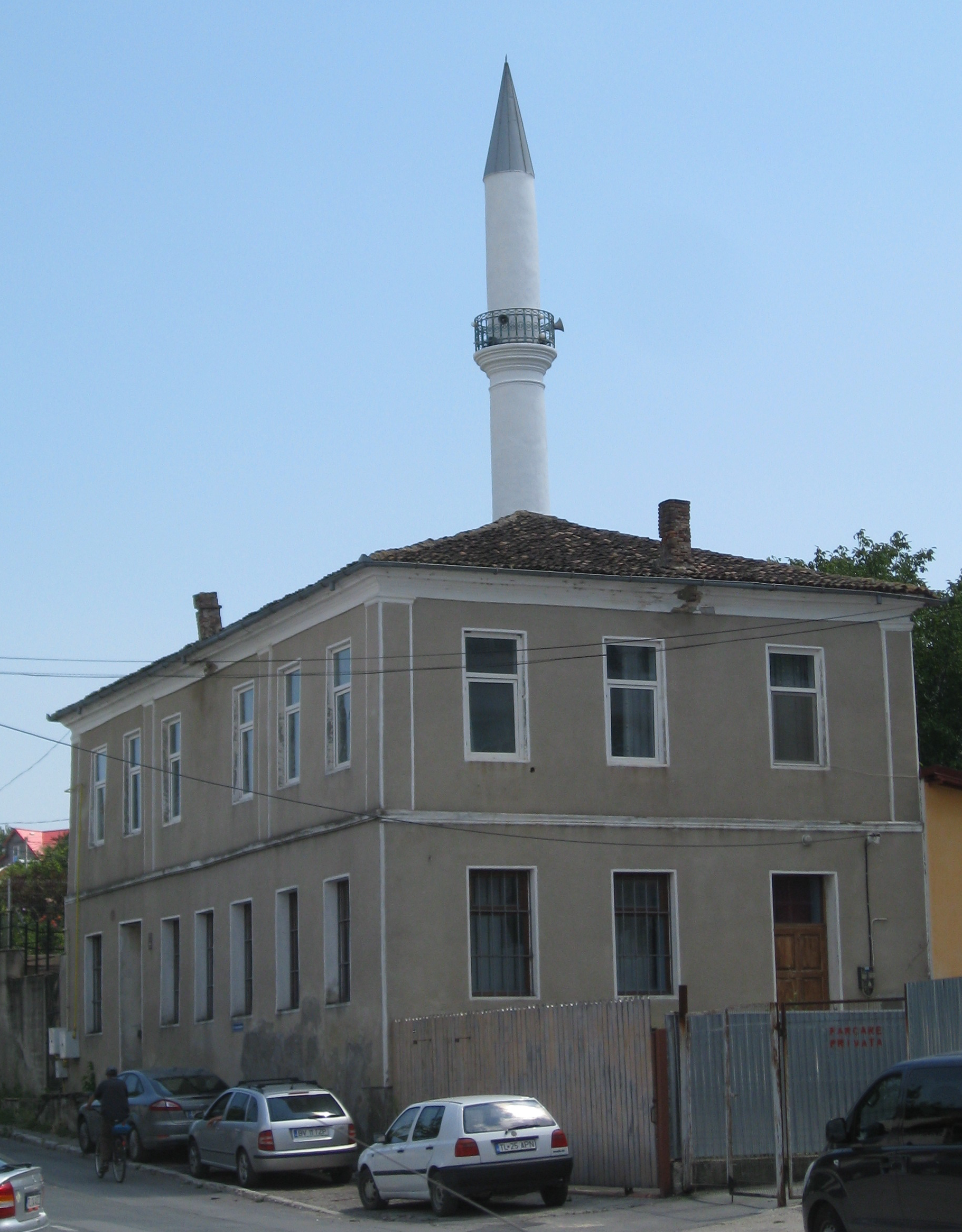 Former Turkish school, Tulcea, Romania